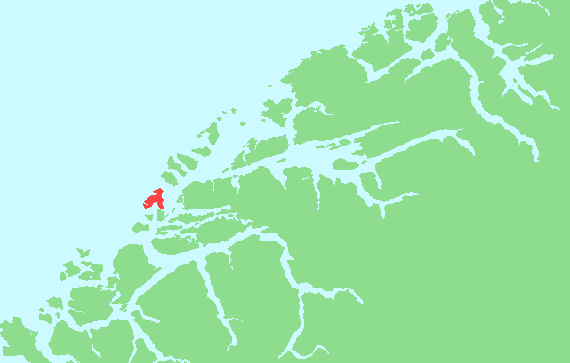 Locator map of Vigra, Møre og Romsdal, Norway